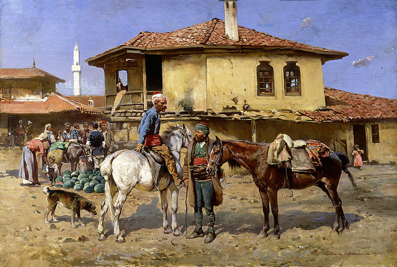 On the eastern marketplacelabel QS:Len,"On the eastern marketplace" label QS:Lpl,"Na targu wschodnim"